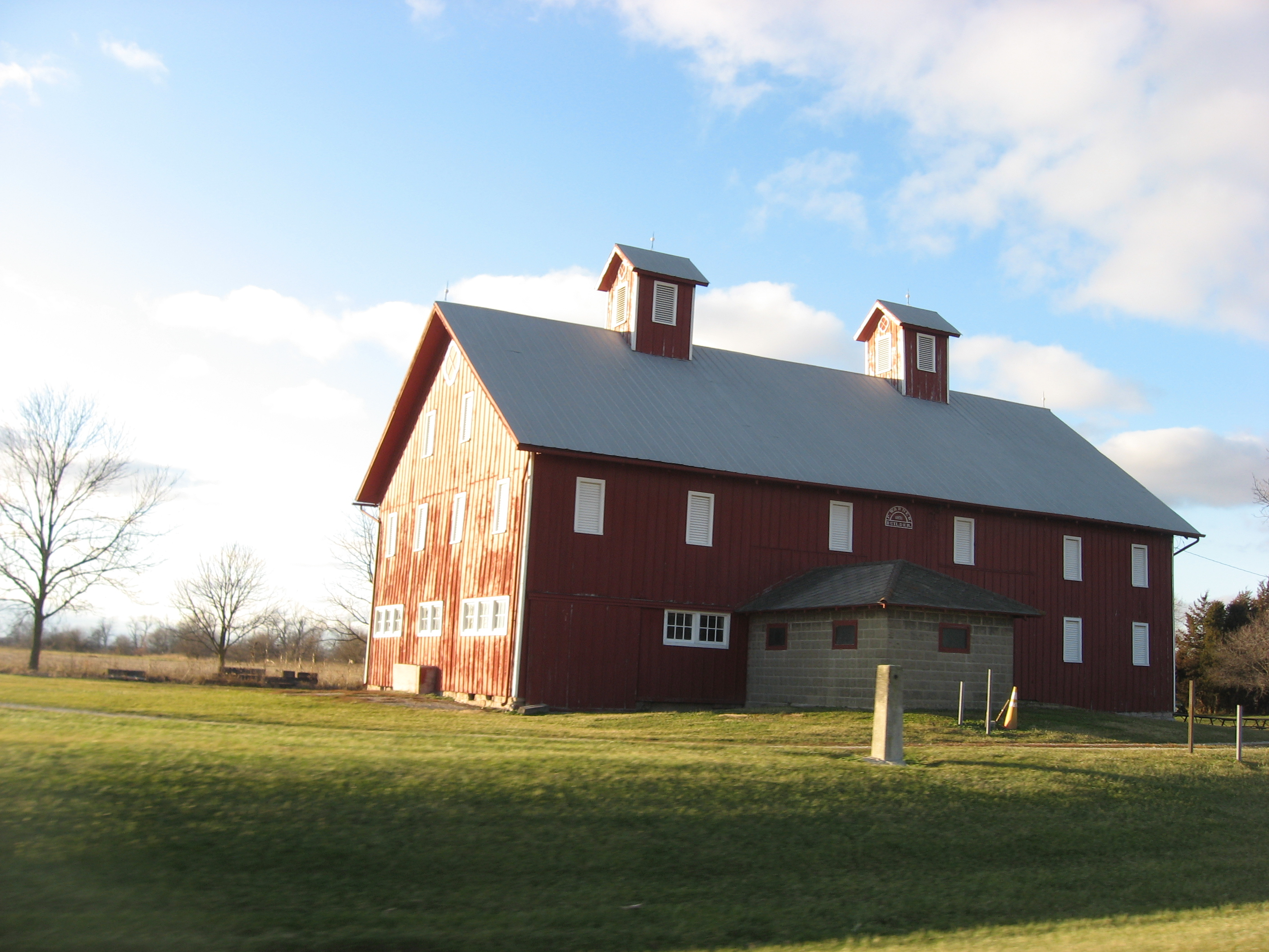 A barn at the Overmyer-Waggoner-Roush Farm, located at 654 S. Main Street (State Route 590) in Lindsey, Ohio, United States. The farm complex is listed on the National Register of Historic Places.